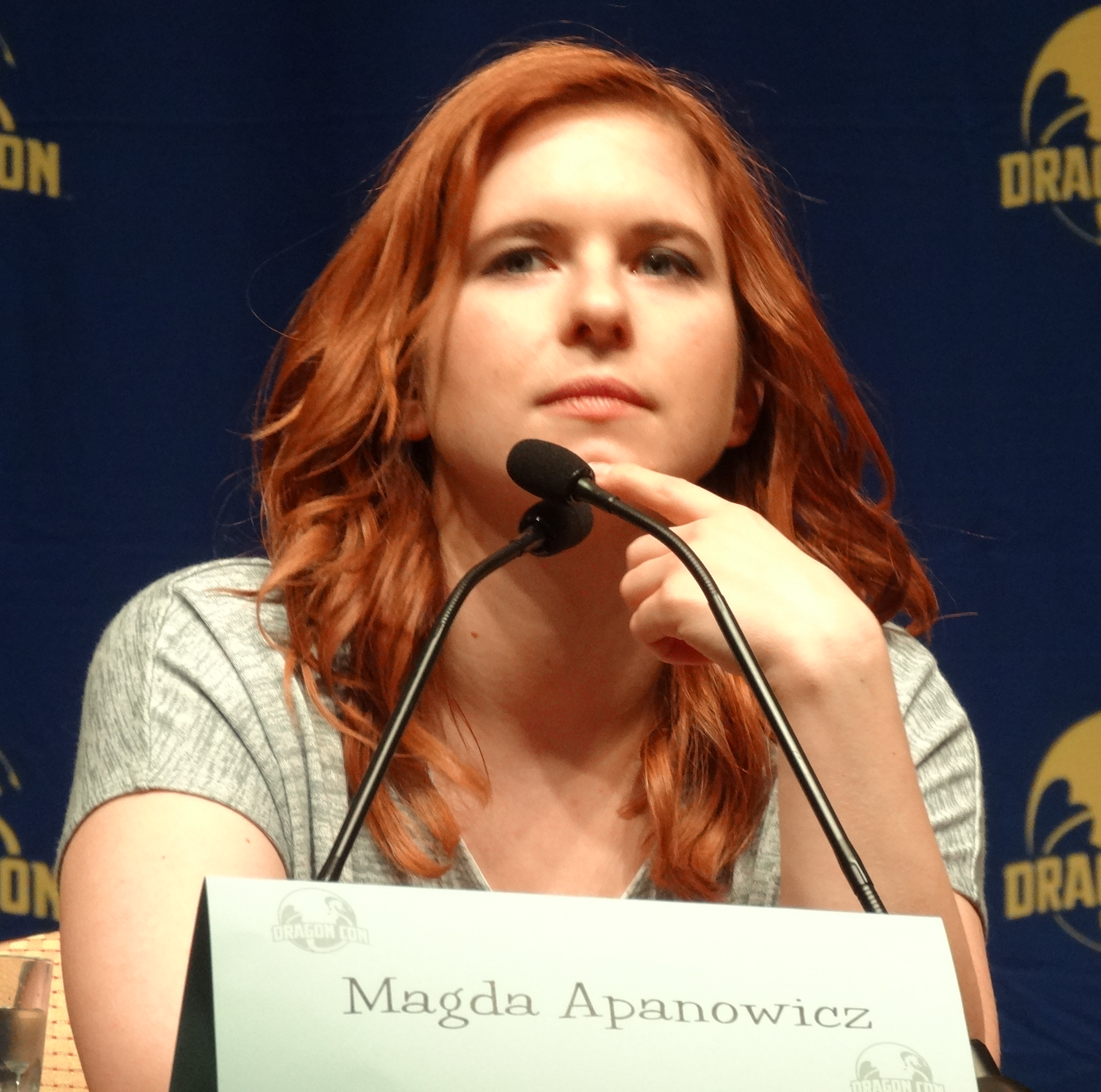 Canadian actress Magda Apanowicz at the "Continuum" panel at Dragon Con 2015